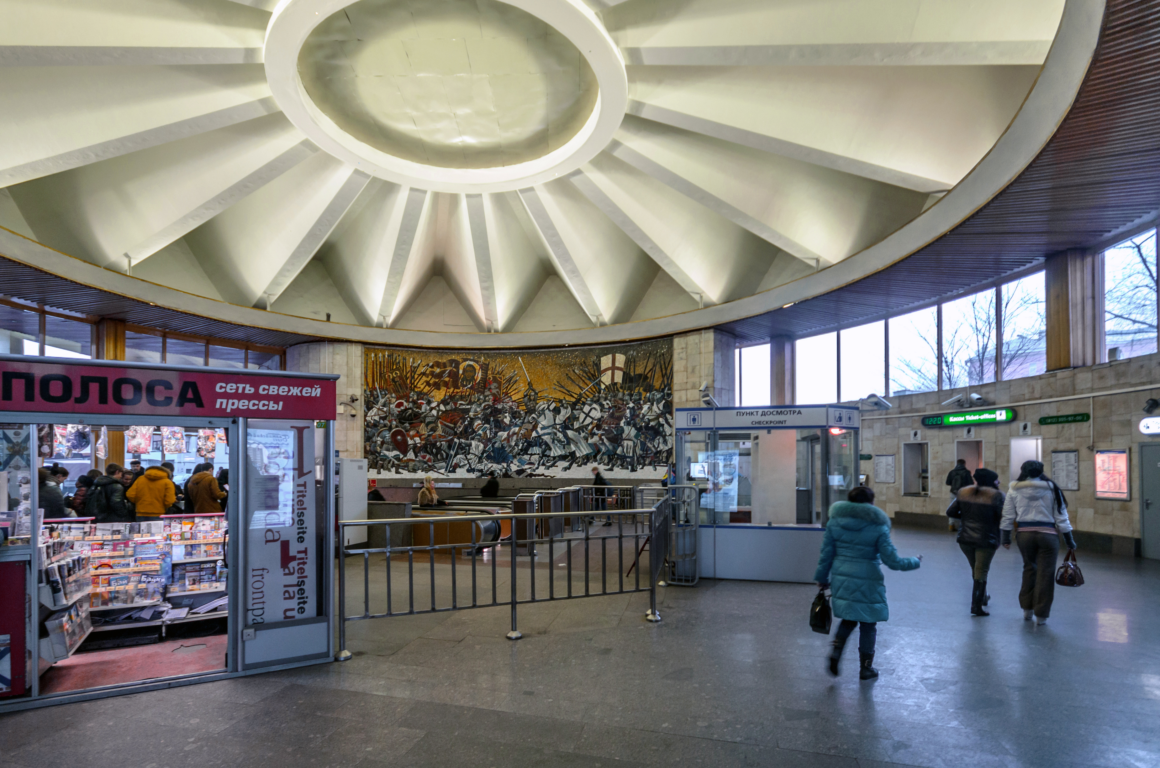 Ploshchad Alexandra Nevskogo 2 station vestibule of Saint Petersburg Subway